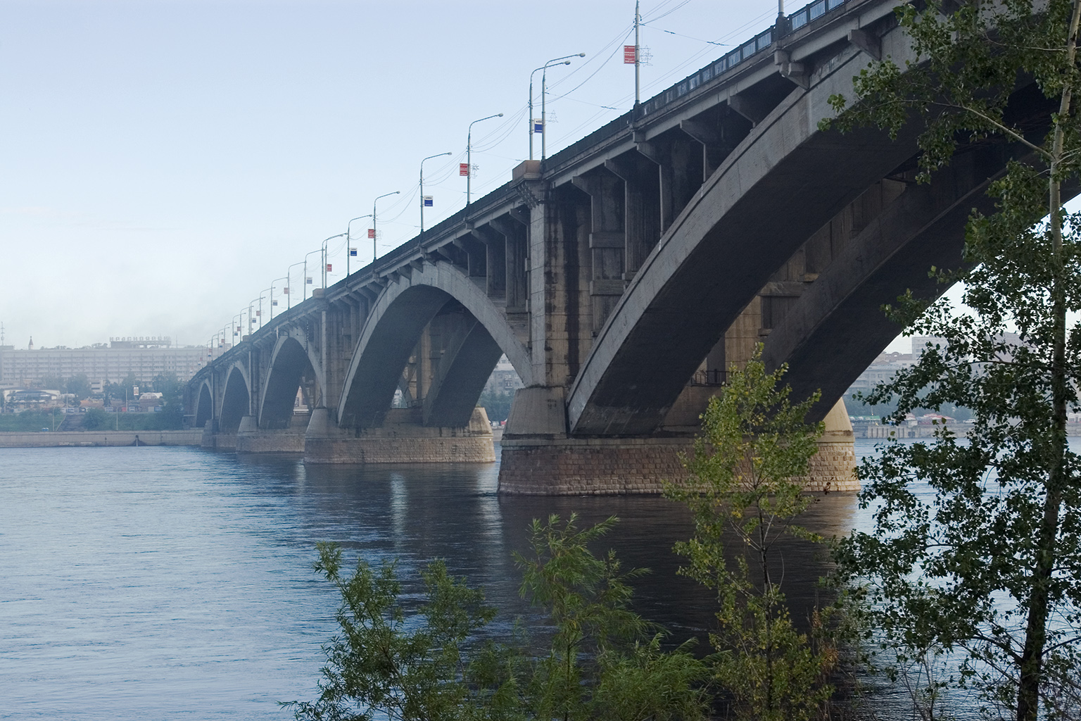 Kommunal'nyjj most, the bridge over the Yenisei in Krasnoyarsk, Russia, view from the Otdykha island.